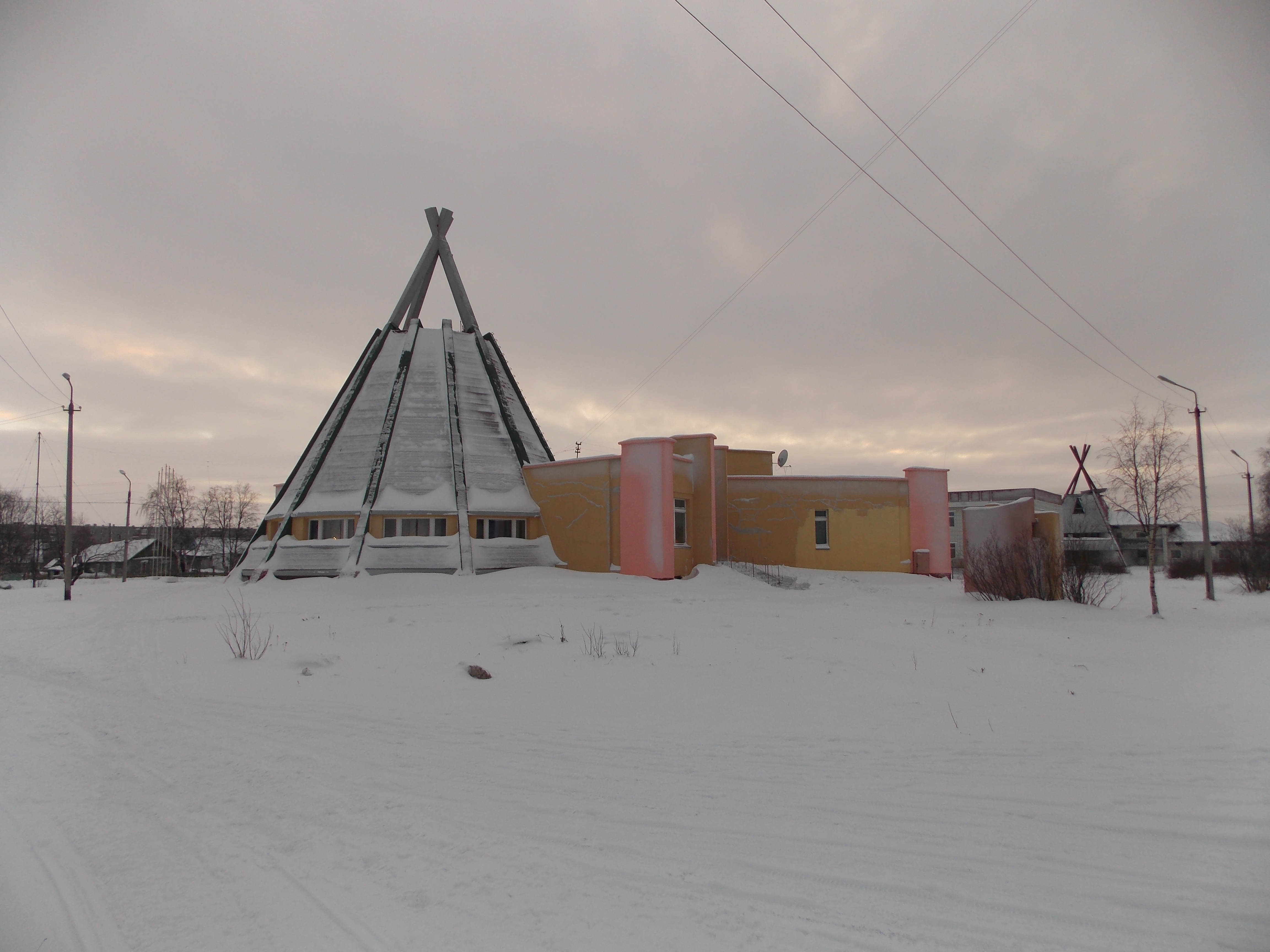 NKC in Lovozero